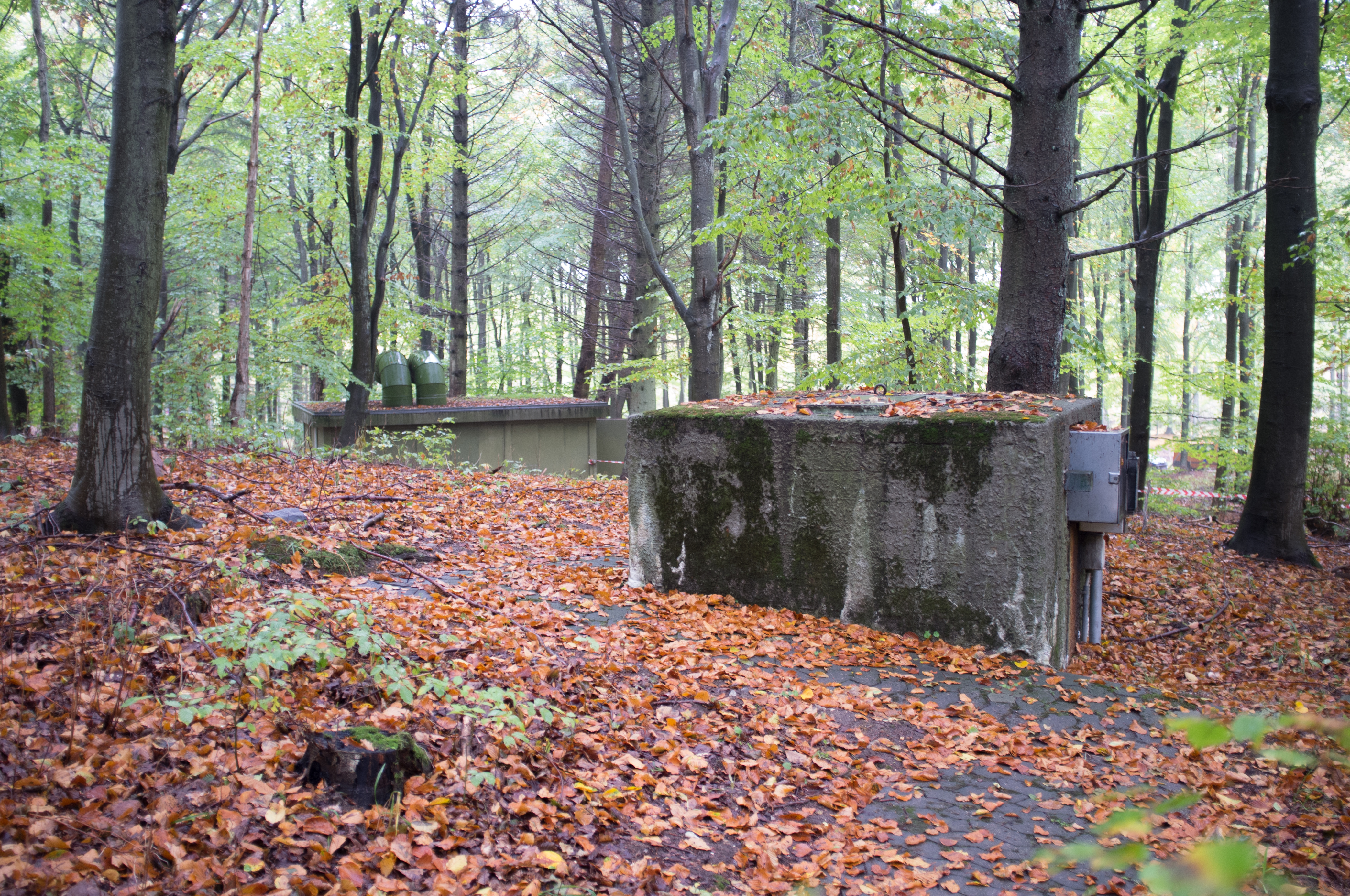 The picture shows the government protection bunker in Gurre, North Zealand, Denmark. The bunker was finished 1961 and have officially been hidden to the public until 2013.